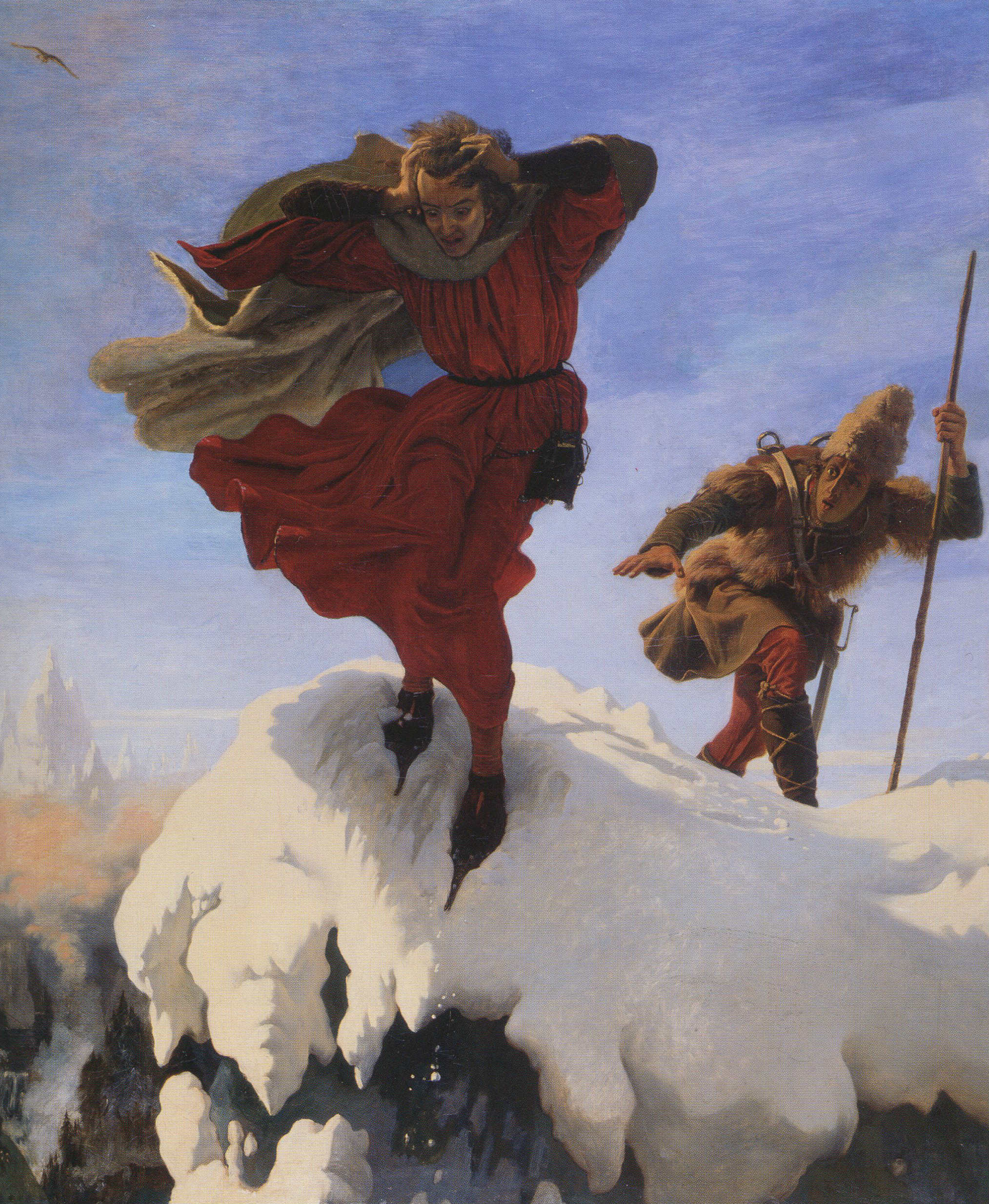 Heroic painting by Madox Brown